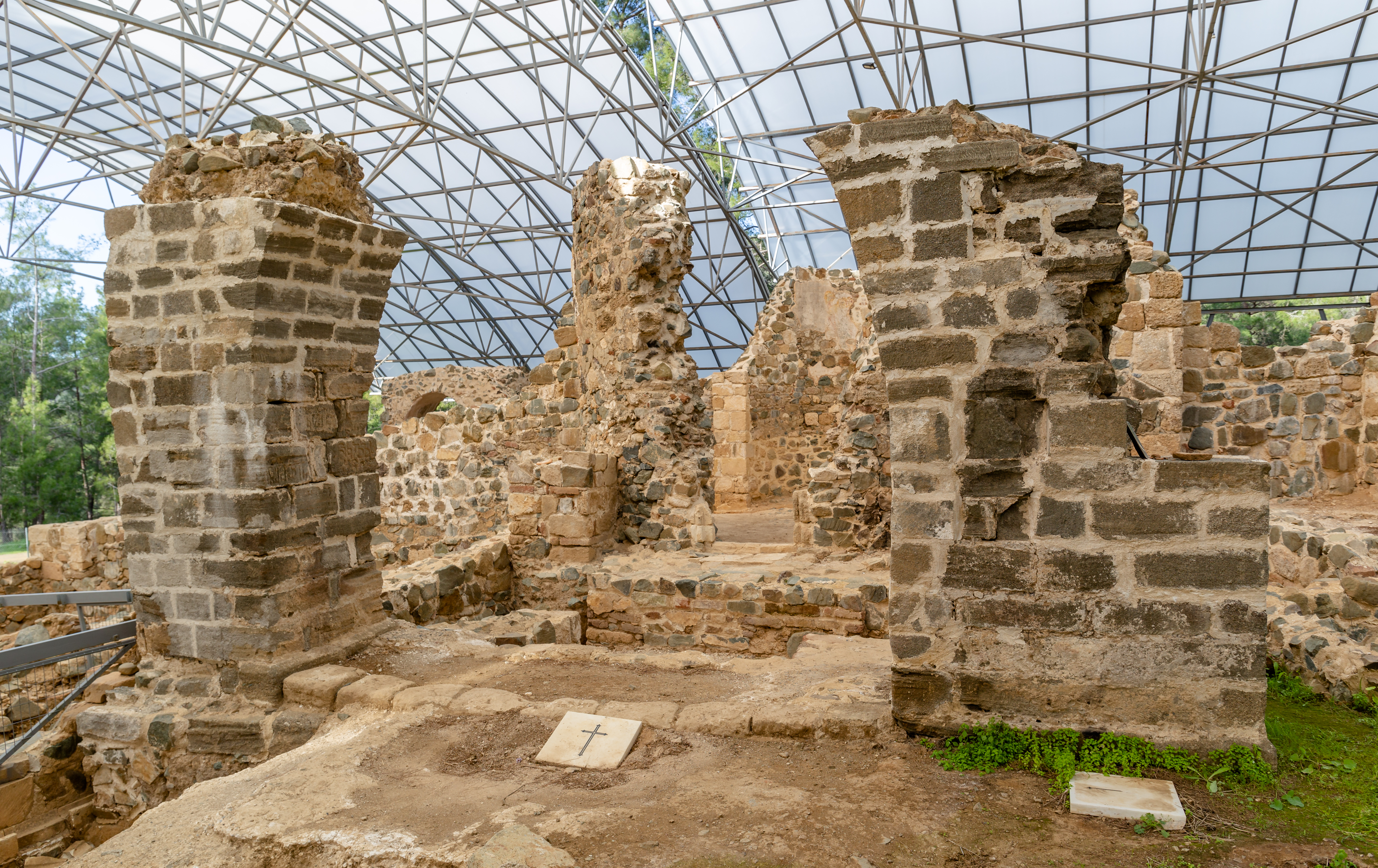 Ruins of Ghalia Monastery in the village Gialia, Paphos District, Cyprus